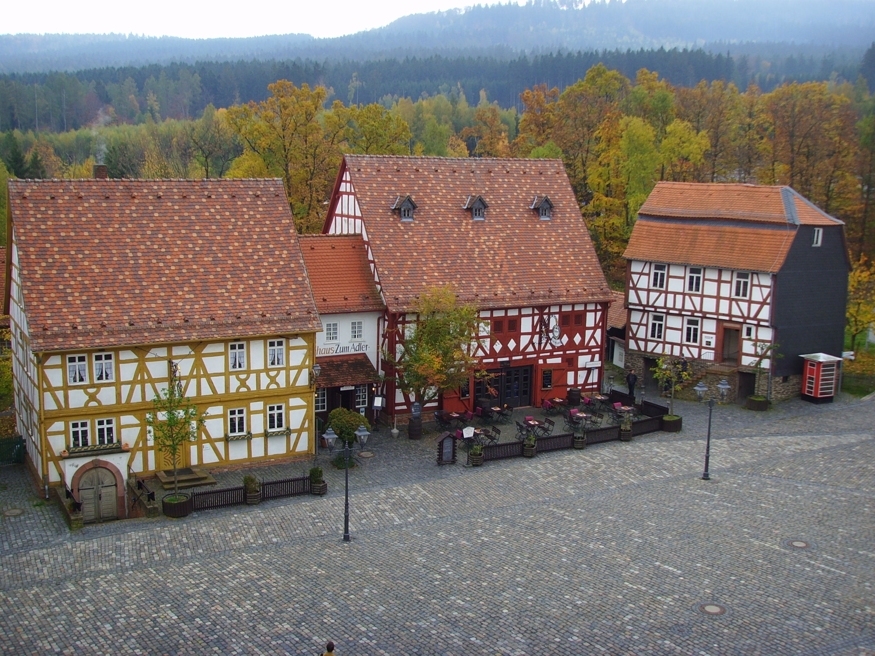 Open air museum "Hessenpark", Hessen, Germany